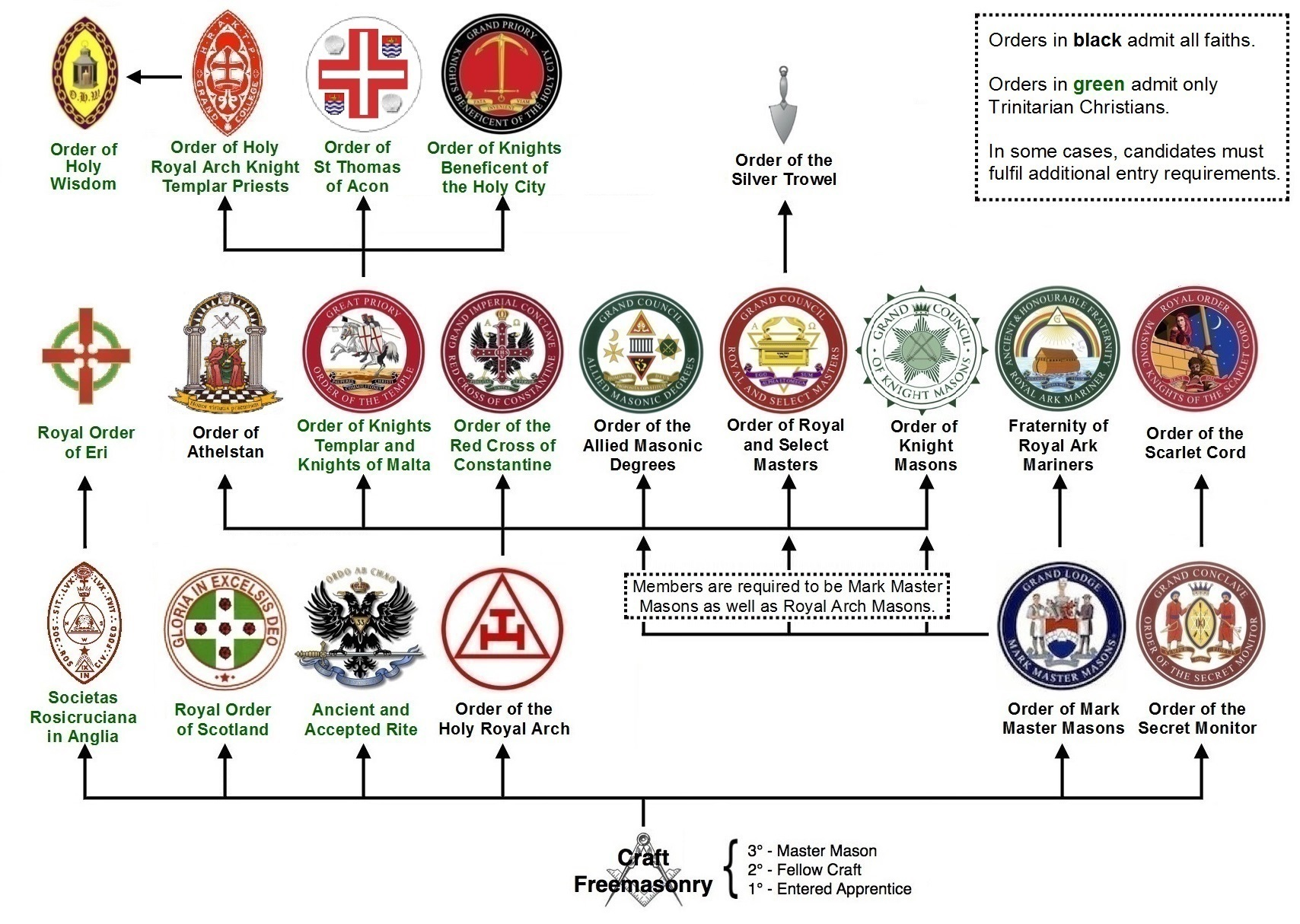 Basic structure of Masonic appendant bodies in England and Wales, illustrating the sequence in which members typically progress from the Craft to further Orders. In practice, many of these further Orders will prescribe additional membership requirements (the Royal Order of Scotland – to pick an example – demands that prospective candidates must have held the degree of Master Mason for at least five years, although it is not uncommon that in some Masonic Provinces in England and Wales, further requirements for joining are added).